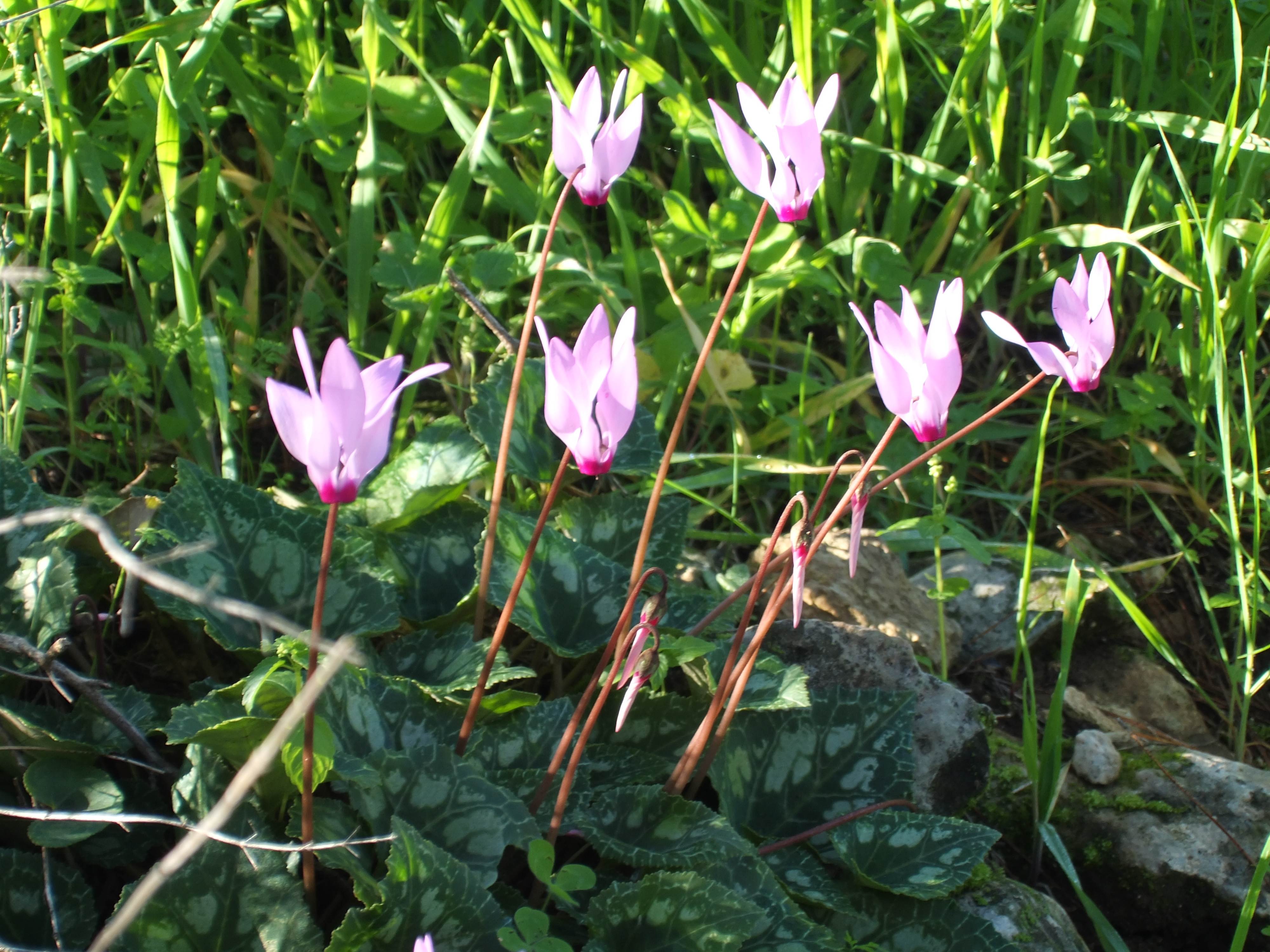 Cyclamen flowers growing in Israel. Photo taken by me on 25 December 2014